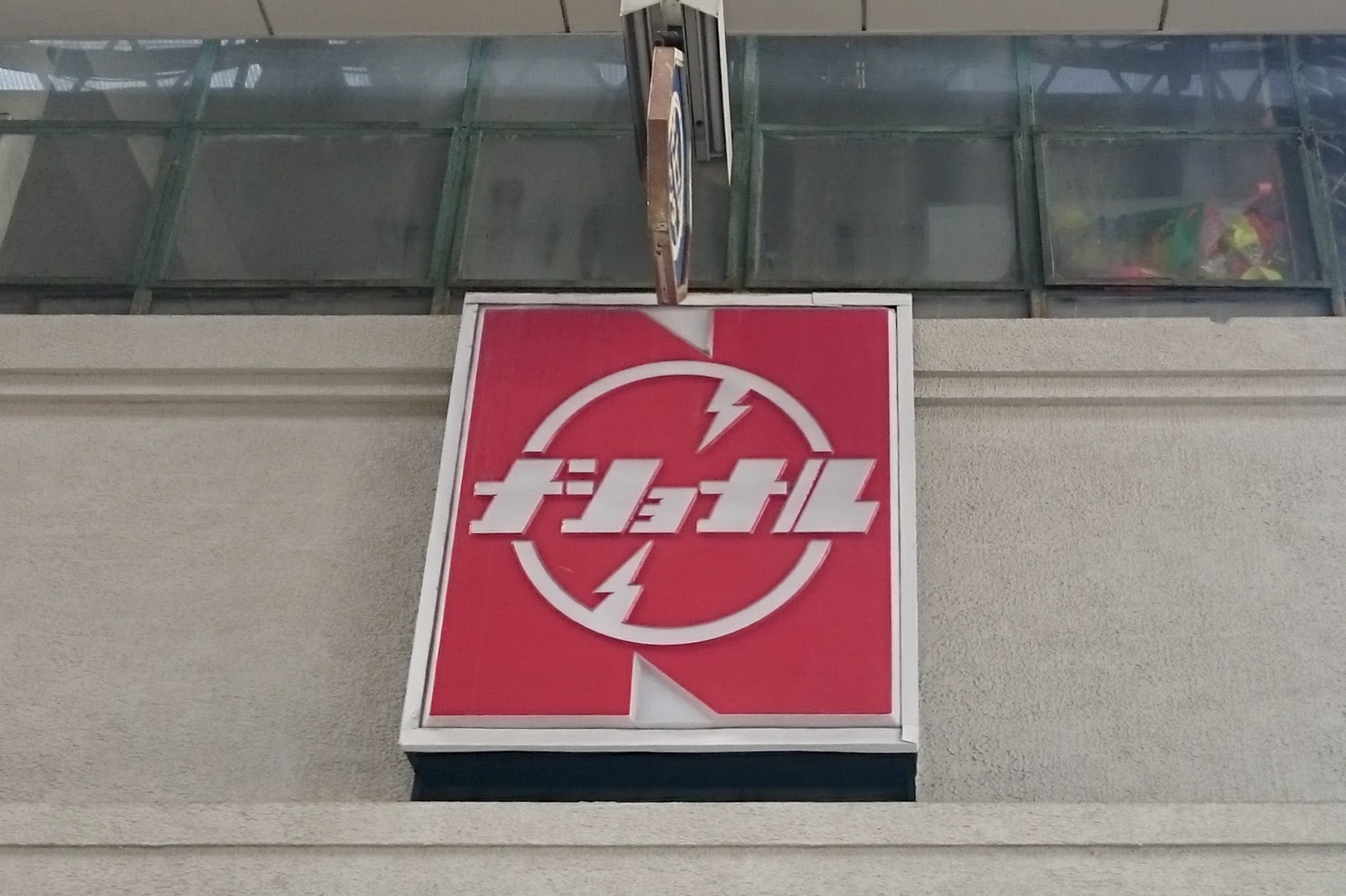 National's old emblem